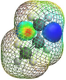 Propene in 3D